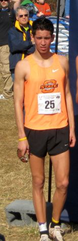 German Fernandez after winning the 2009 US Junior Men's Cross Country Championship